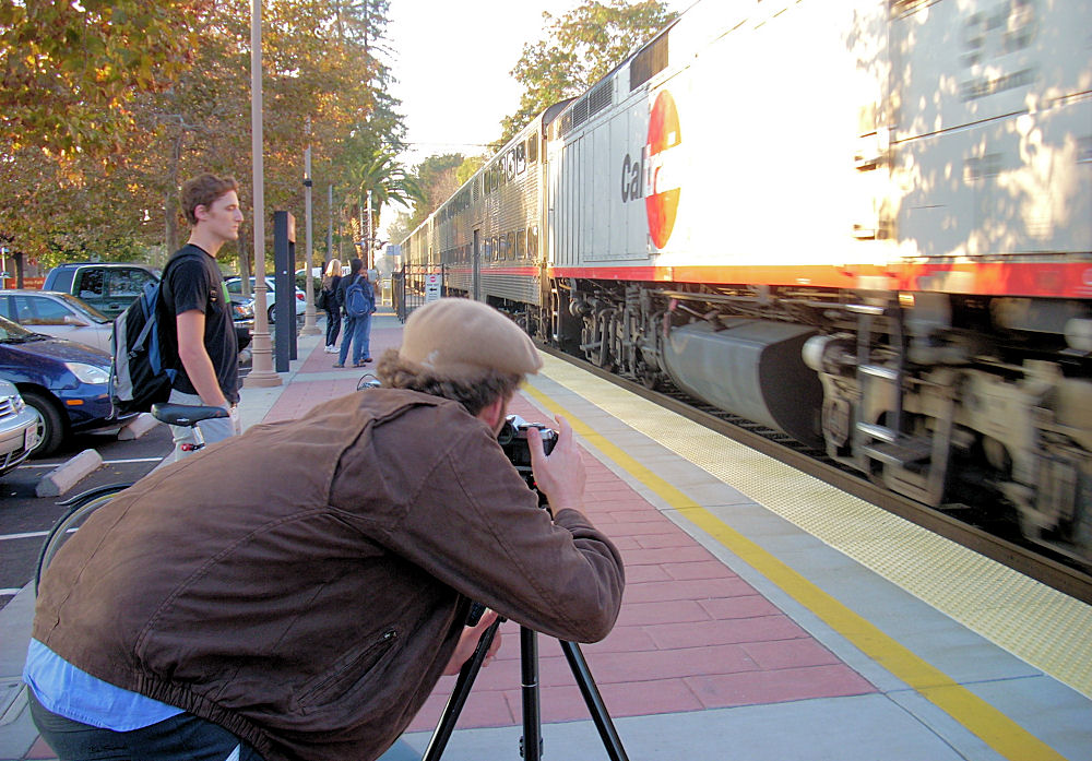 Photographing a "caltrain" service in the United States. Photographing the photographer who photographed the train coming by. He was playing with a new motor drive on his Canon AE-1.